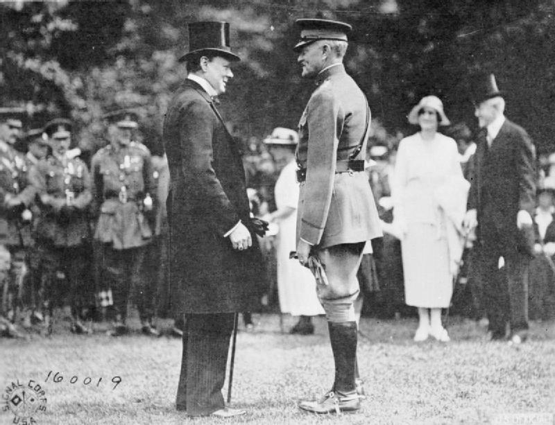 General John Pershing and Secretary of State for War and Secretary of State for Air Winston Churchill in conversation in London on the day of the Victory Parade on 19 July 1919.